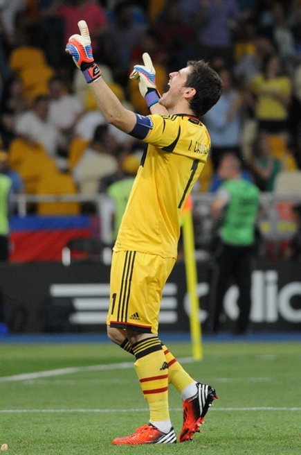 Iker Casillas at Euro 2012 final Spain-Italy